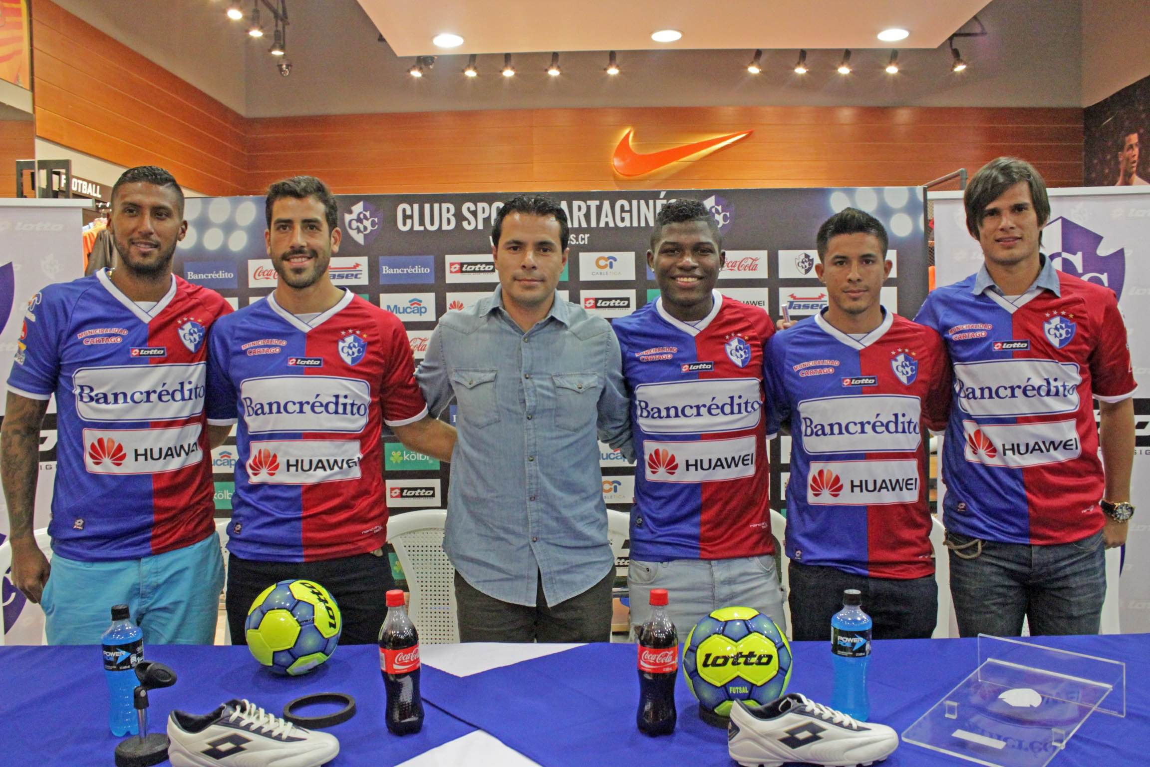 Enrique with some members of his C.S. Cartaginés team at a press conference